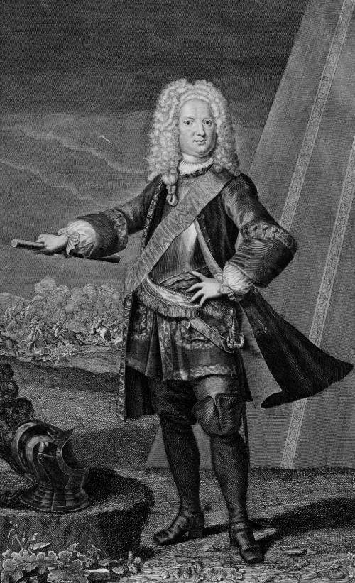 Johann Adolf II, Duke of Saxe-Weissenfels (1685-1746)